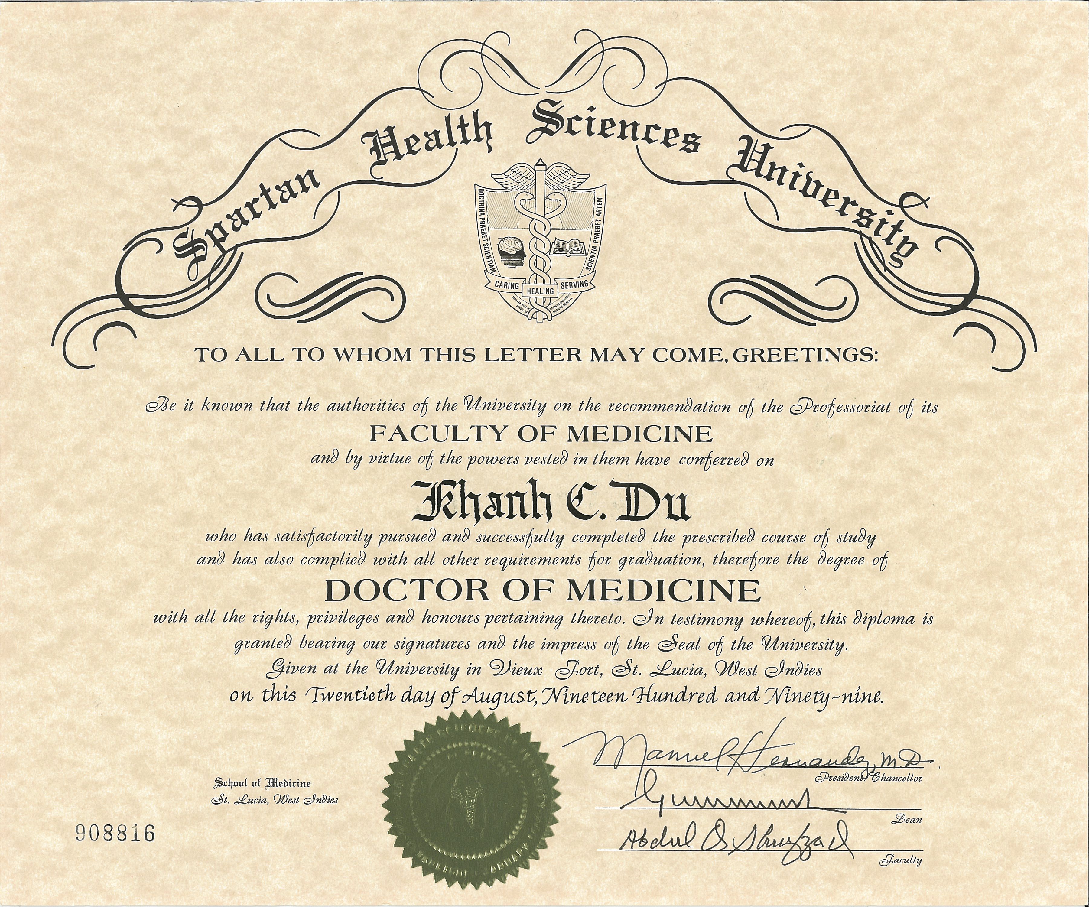 ArchDuke Kenneth Khanh Du's Doctor of Medicine diploma